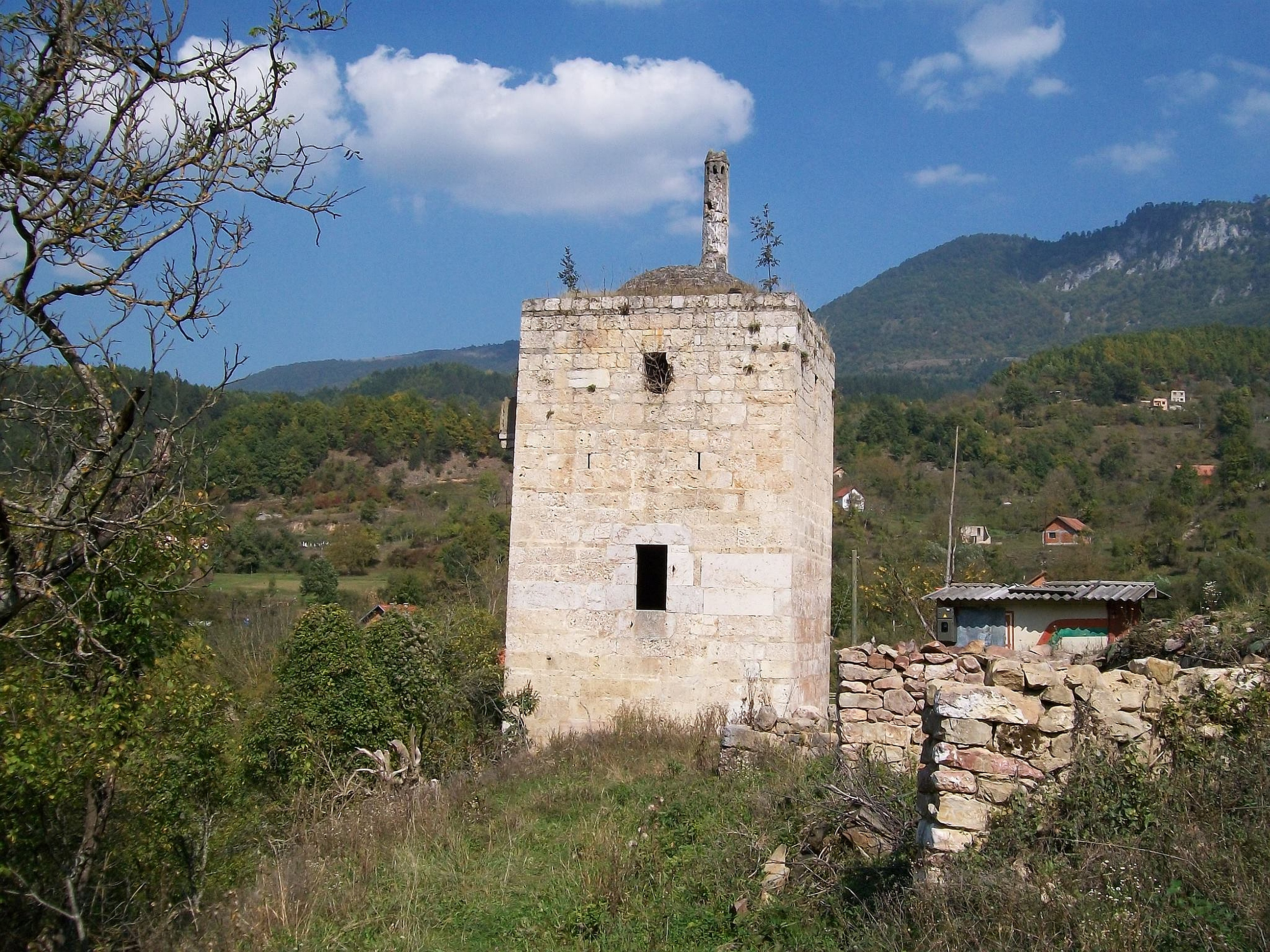 Сликава е подигната во рамките на проектот „По трагата на душата 2015“.